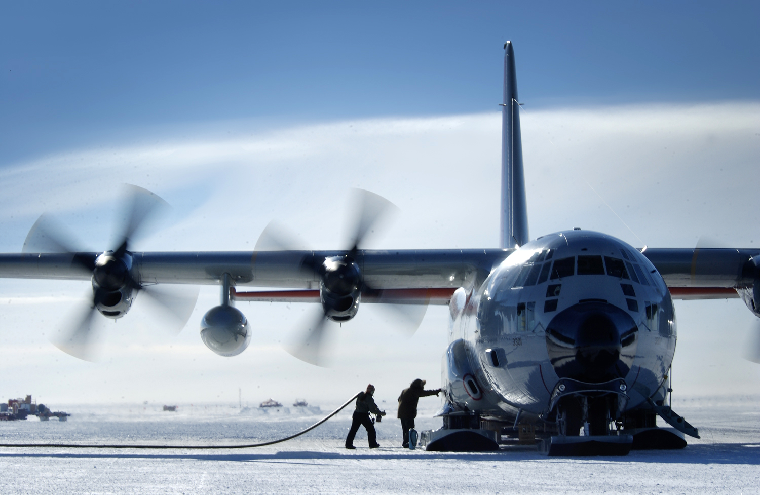 A New York Air National Guard LC-130 Hercules sits while crews unload fuel and cargo here during a mission to Antarctica in 2005. A LC-130 arrived Oct. 17 at Hickam Air Force Base, Hawaii, en route to its first Operation Deep Freeze mission for the year. The LC-130 is equipped with ski-landing gear that allows the aircraft to land on ice or snow while airlifting supplies to remote locations throughout the Antarctic continent.